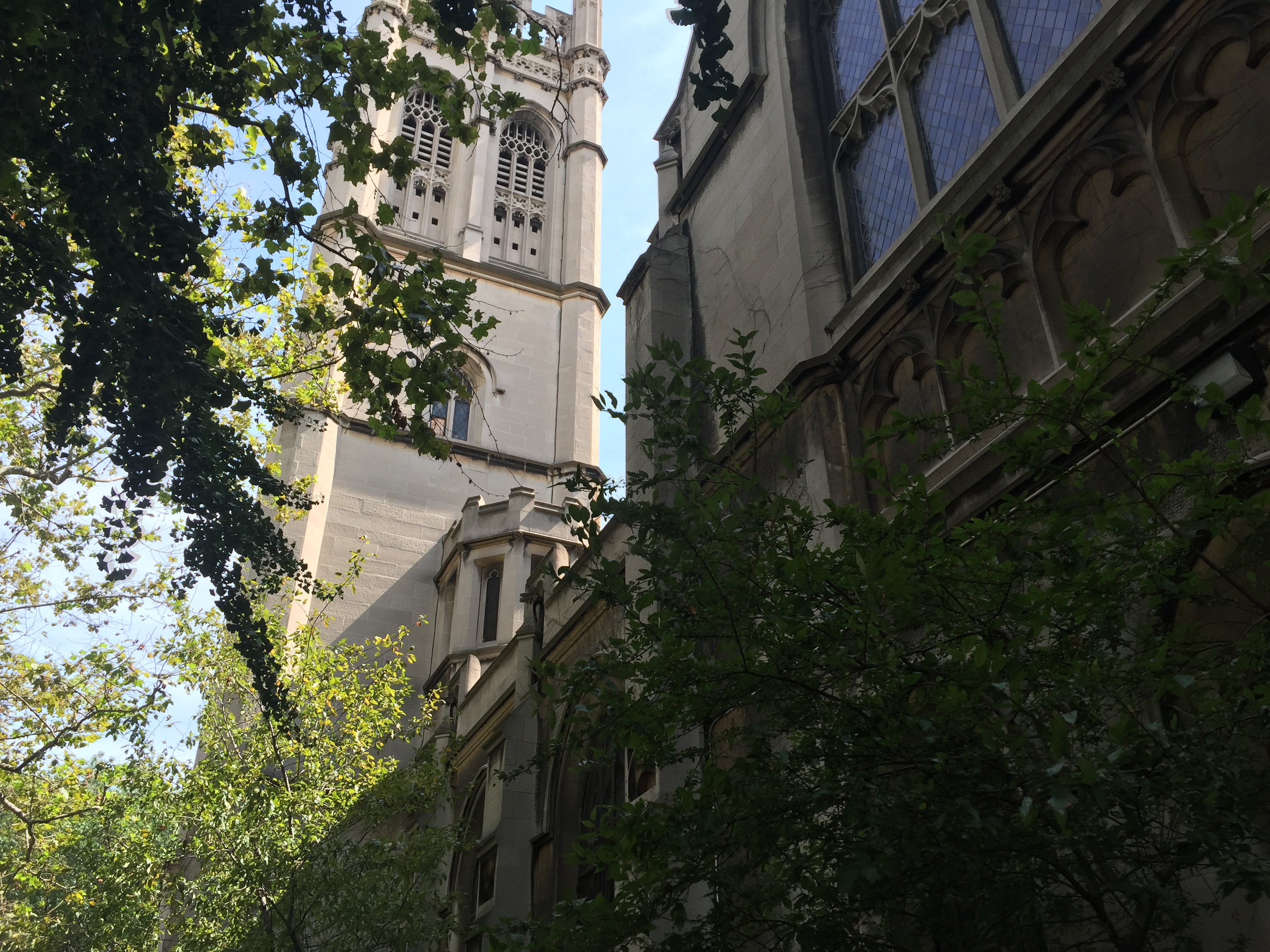 View From 76th Street